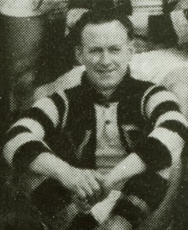 Photograph of Cyril Kent in 1928